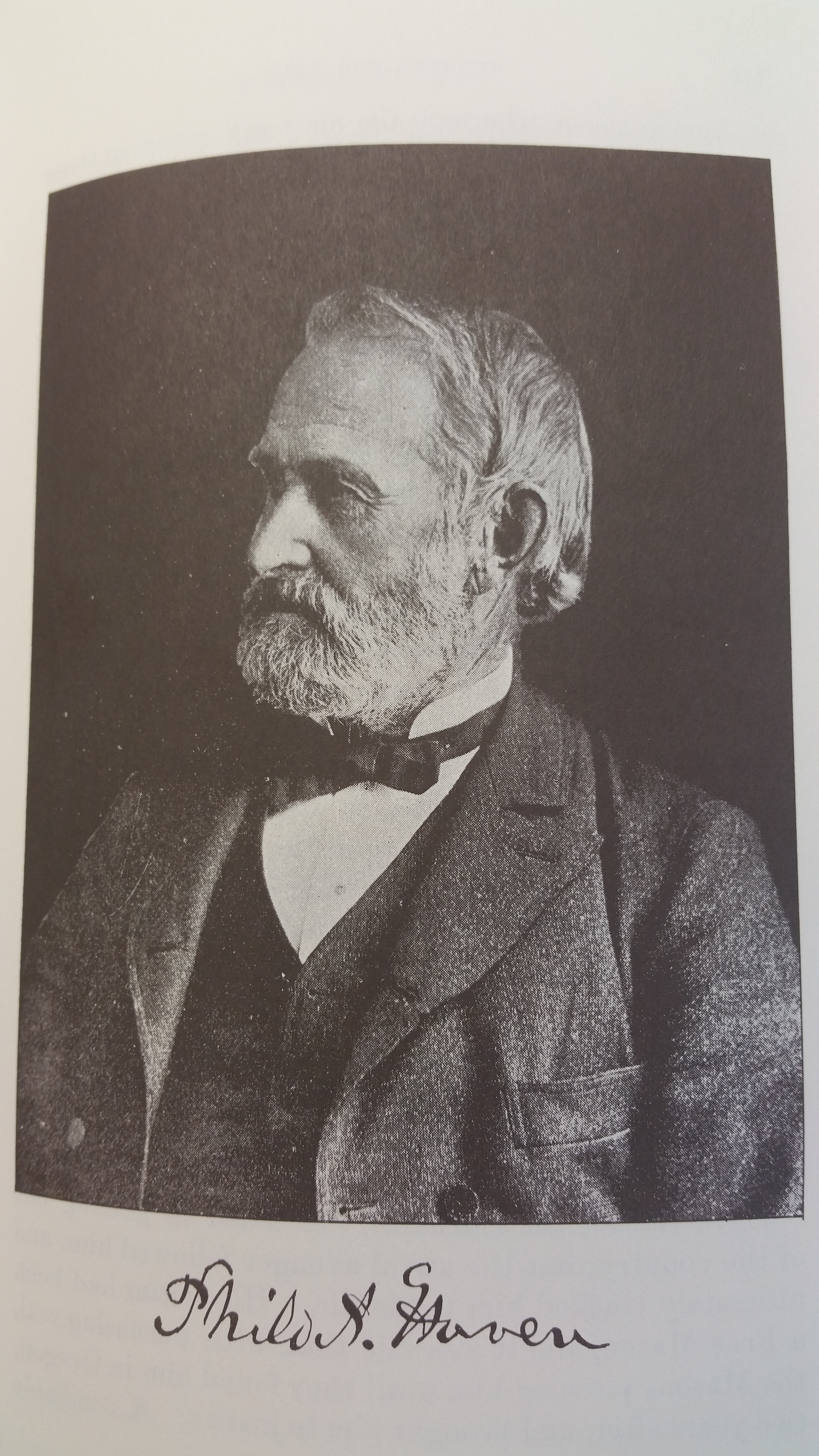 Philo Haven